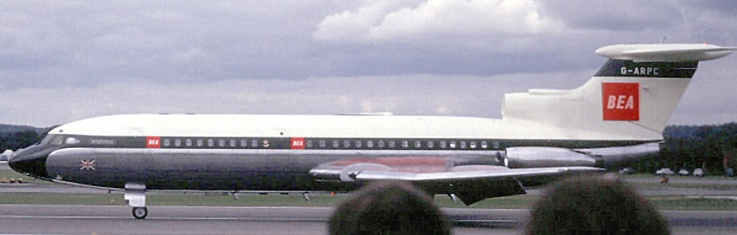 British European Airways (BEA) Hawker-Siddeley Trident (G-ARPC), probably at a Farnborough Air Show, date unknown.